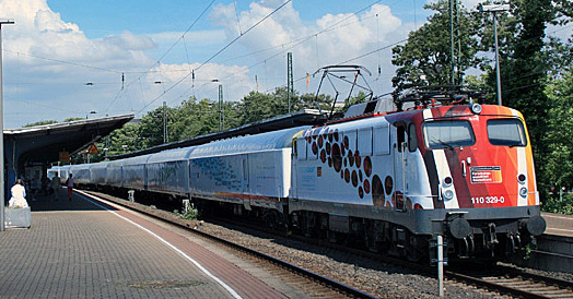 110 329-0 (built in 1964) with ScienceExpress at may 2009 in Neuss